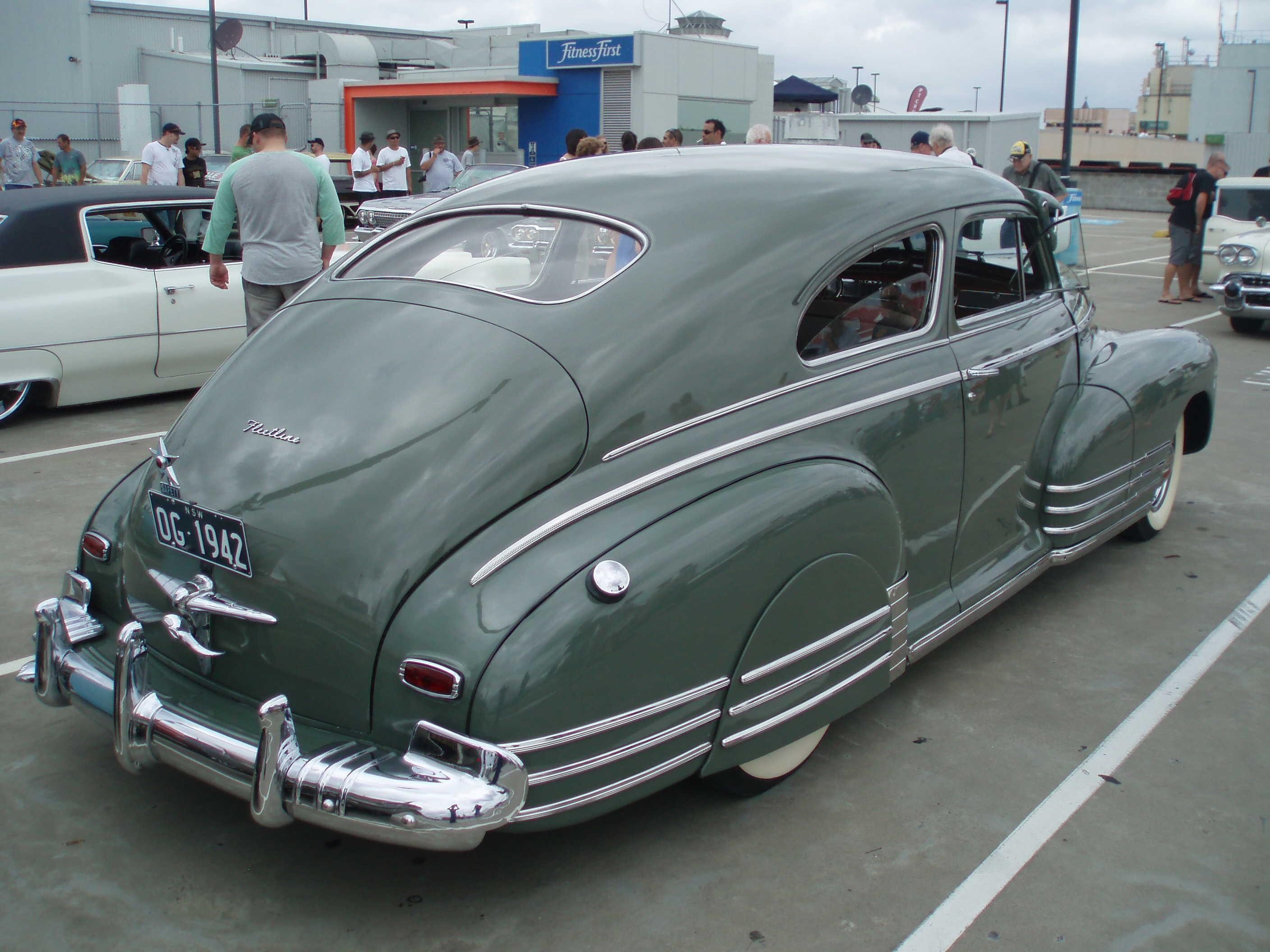 1942 Chevrolet Fleetline Special Deluxe coupe. Taken at the 2011 New South Wales All American Day, held at Castle Towers Shopping Centre, Castle Hill, Sydney.